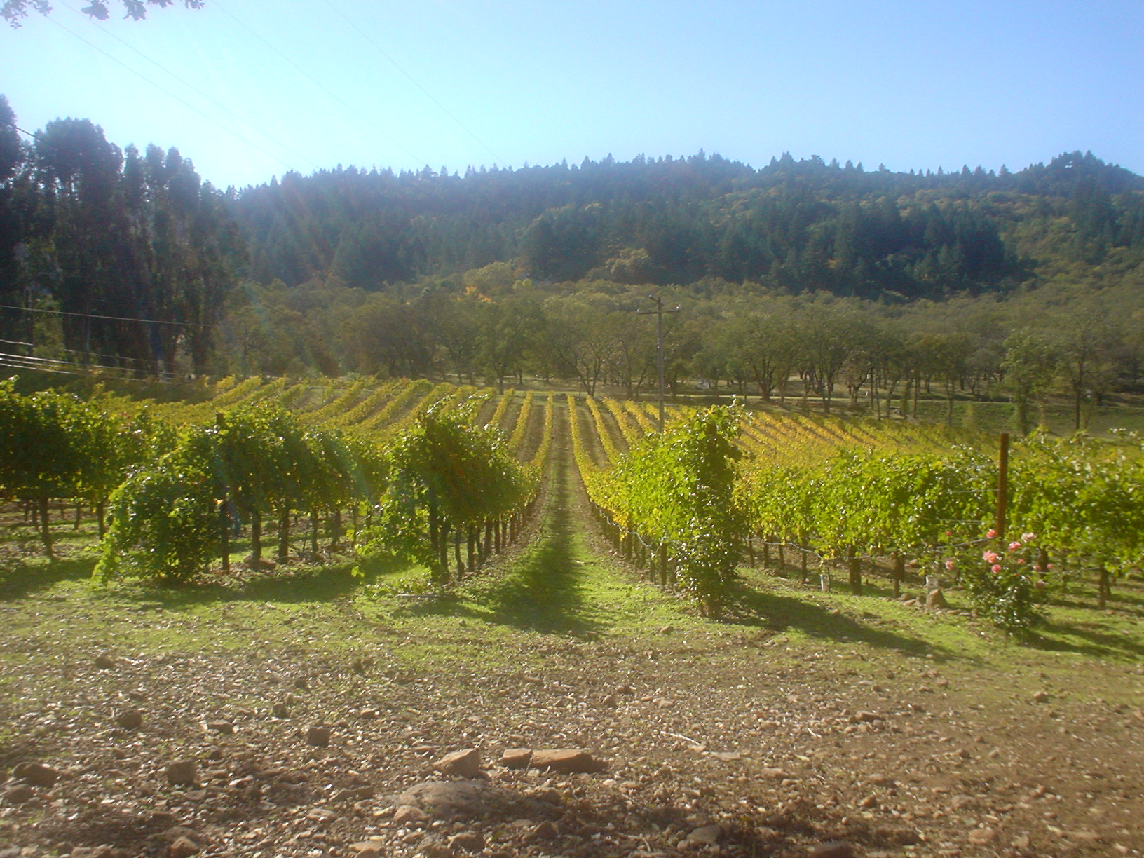 California vineyard in the Napa Valley